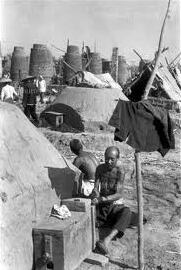 During 1958-1960 Great Leap Forward era, Chinese were using backyard furnaces to produce steel, instead, useless pig iron were produced..